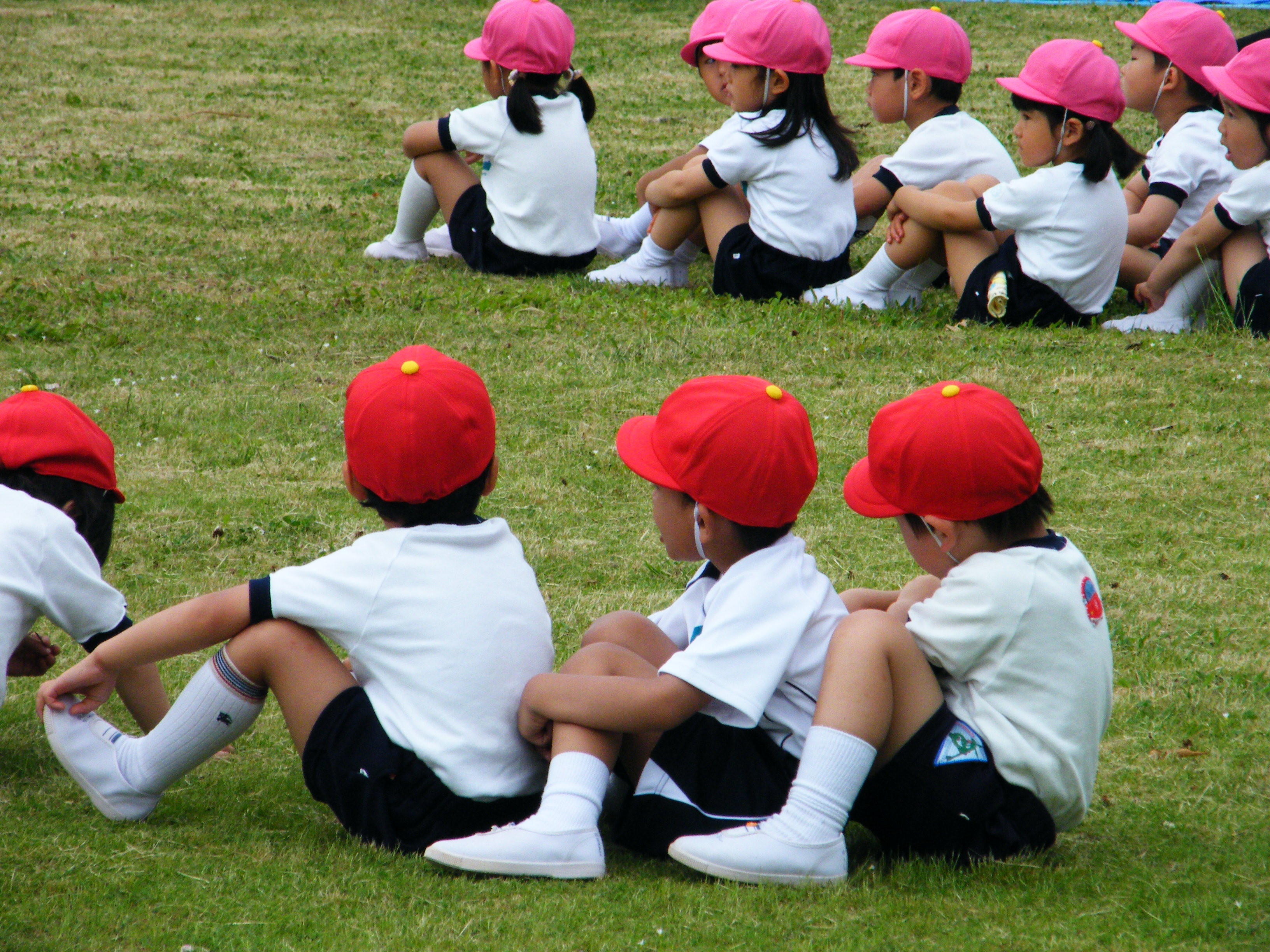 51 - how boys & girls sit